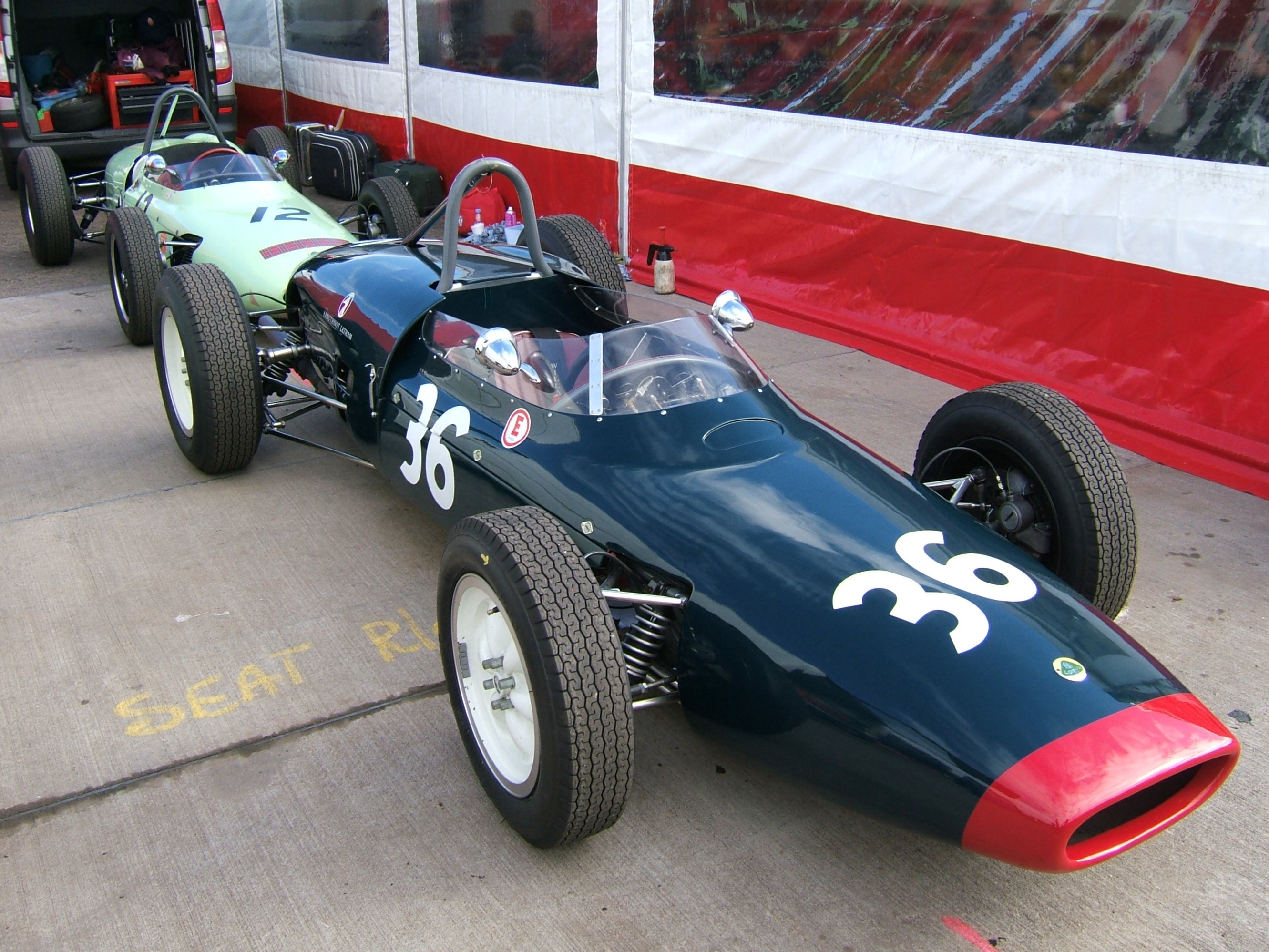 A pair of Lotus 18/21 Formula One cars wait in the paddock of the VSCC SeeRed race meeting, Donington Park, September 2007.